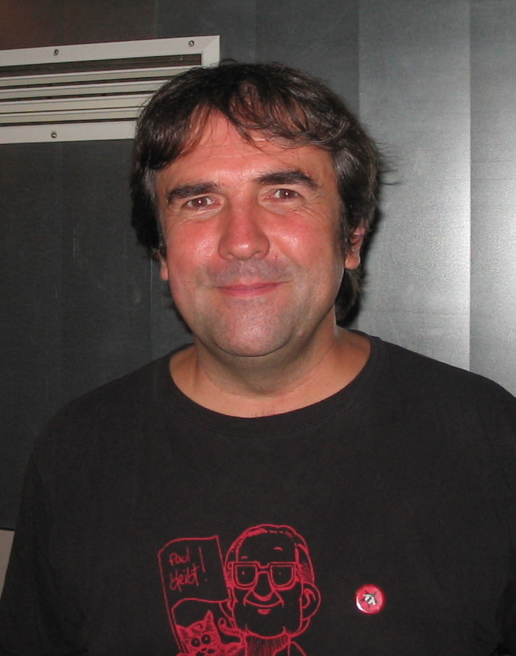 Bernd Drücke at LiMesse (libertarian media fair) 2012 in Bochum, Germany